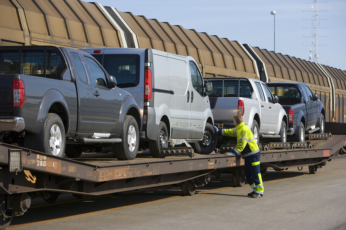 Loading of cars on trains in Malmö, Sweden